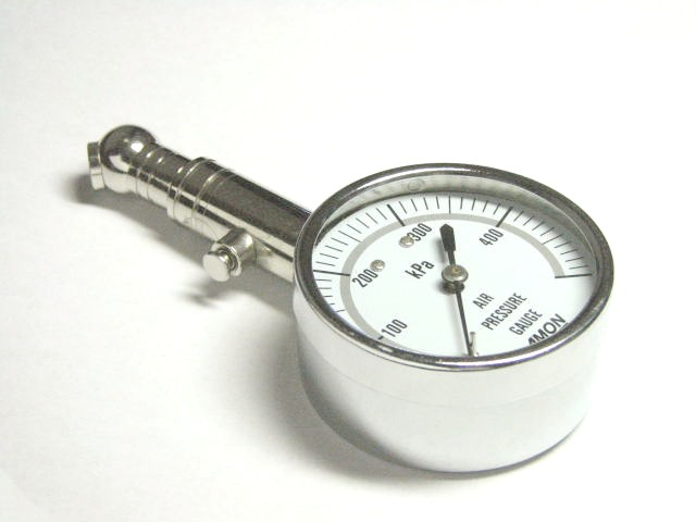 The picture of tyre air pressure gauge.